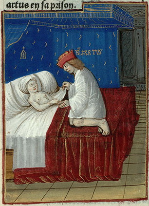 Source: Paris, Bibl. Mazarine, Inc. 1286 Page: f. 188v Subject: Arthur sleeping with false Guinièvre Comment le roy artus estant en prison de la dame de camelide couchoit chacun iour avec elle et tant fist elle que le roy artus luy promist la prendre en mariage. Keywords: miniature , literary scene , sexual relations , woman , bedridden , nudity , Arthur , king , underwear , bed , pillow , bed cover , room , inscription identification Manuscript Title Lancelot in prose (part of) Origin: Northern France (Paris)